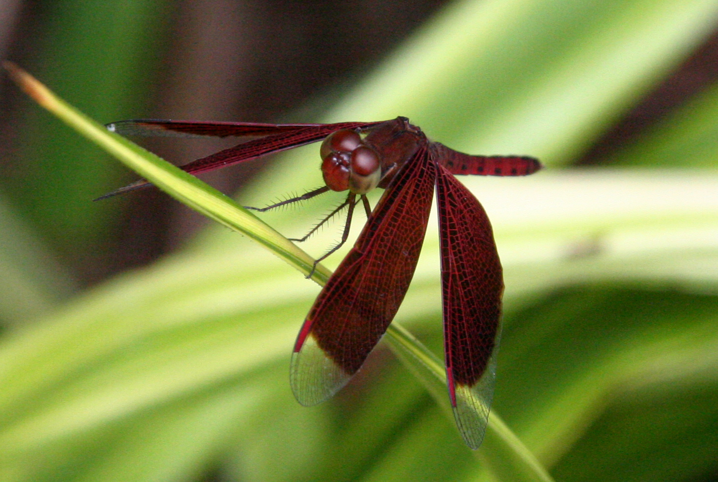 Walked into a rough patch of grasses at the Botanical Gardens in Singapore and was met by a number of these chaps flapping around.